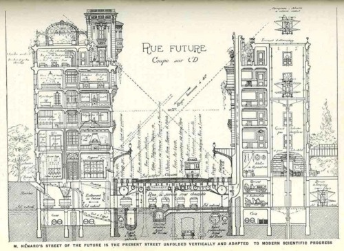 Illustration of the road of the future by Eugène Hénard (1849-1923) from his The Cities of the Future, published in American City, January, 1911.